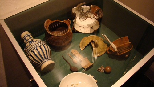 garbage/rubbisch from Renbrandt, Renbramdthouse Amsterdam